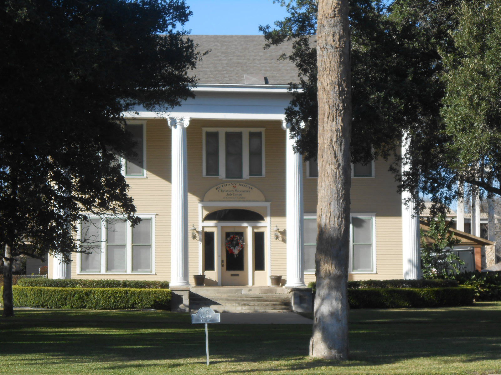 The Episcopal Manse in Gonzales, Texas is located on St. Louis St.